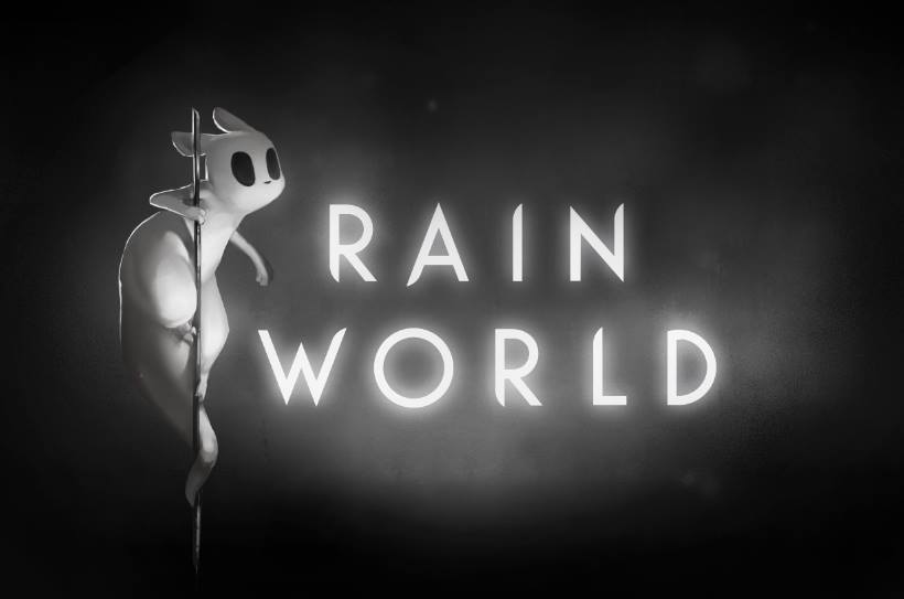 Rain World logo